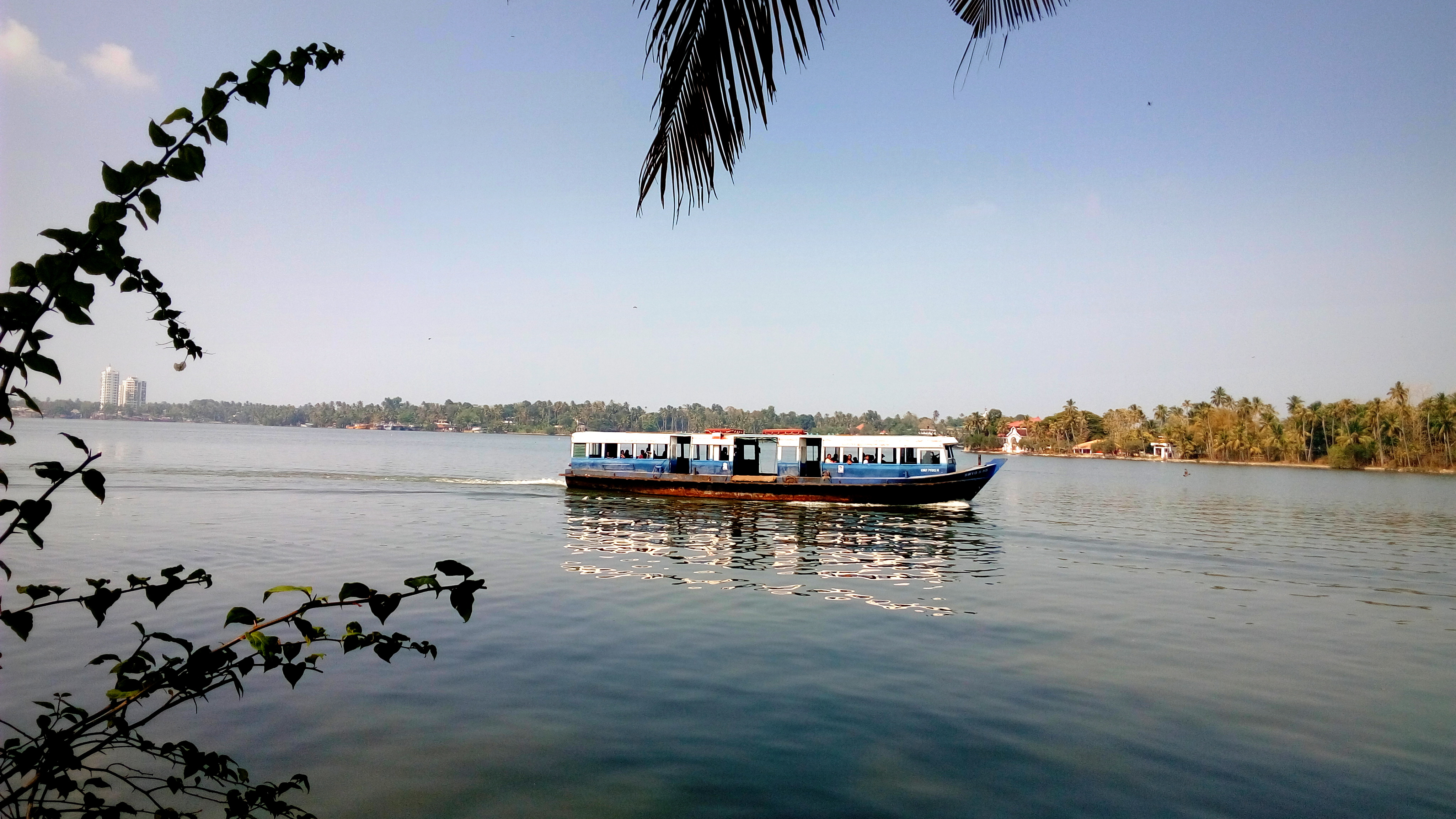 Kollam is a city approachable through rail, road and water transportation systems